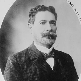 Fernando Figueroa President of Salvador